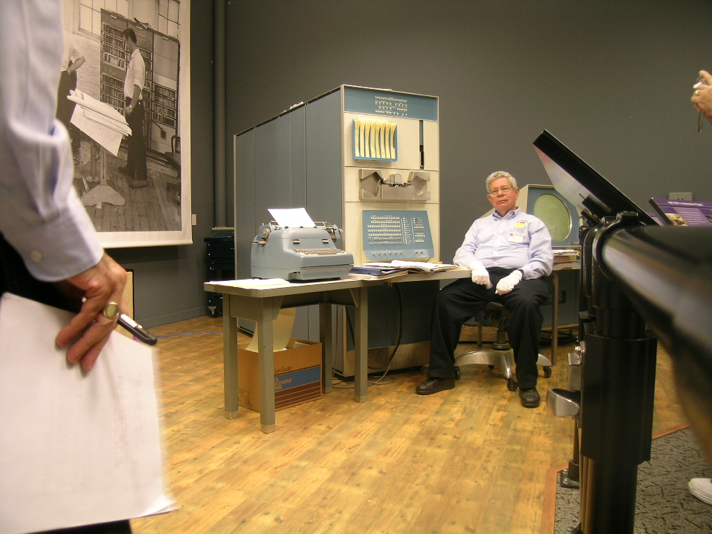 Steve Russell and the Computer History Museum's PDP-1.